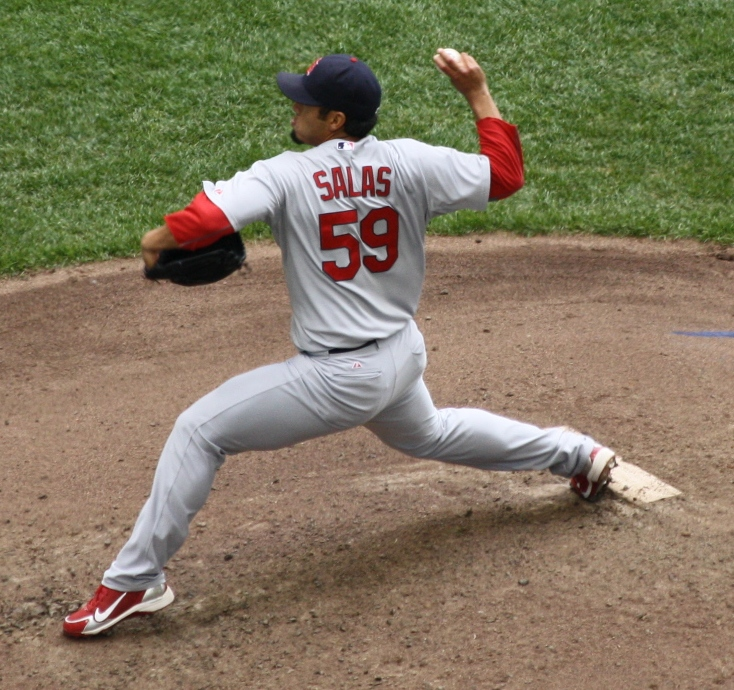 Fernando Salas pitching in 2011 at Miller Park.